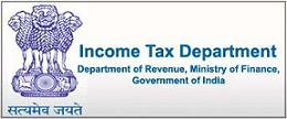 Aaykar Vibhaag logo